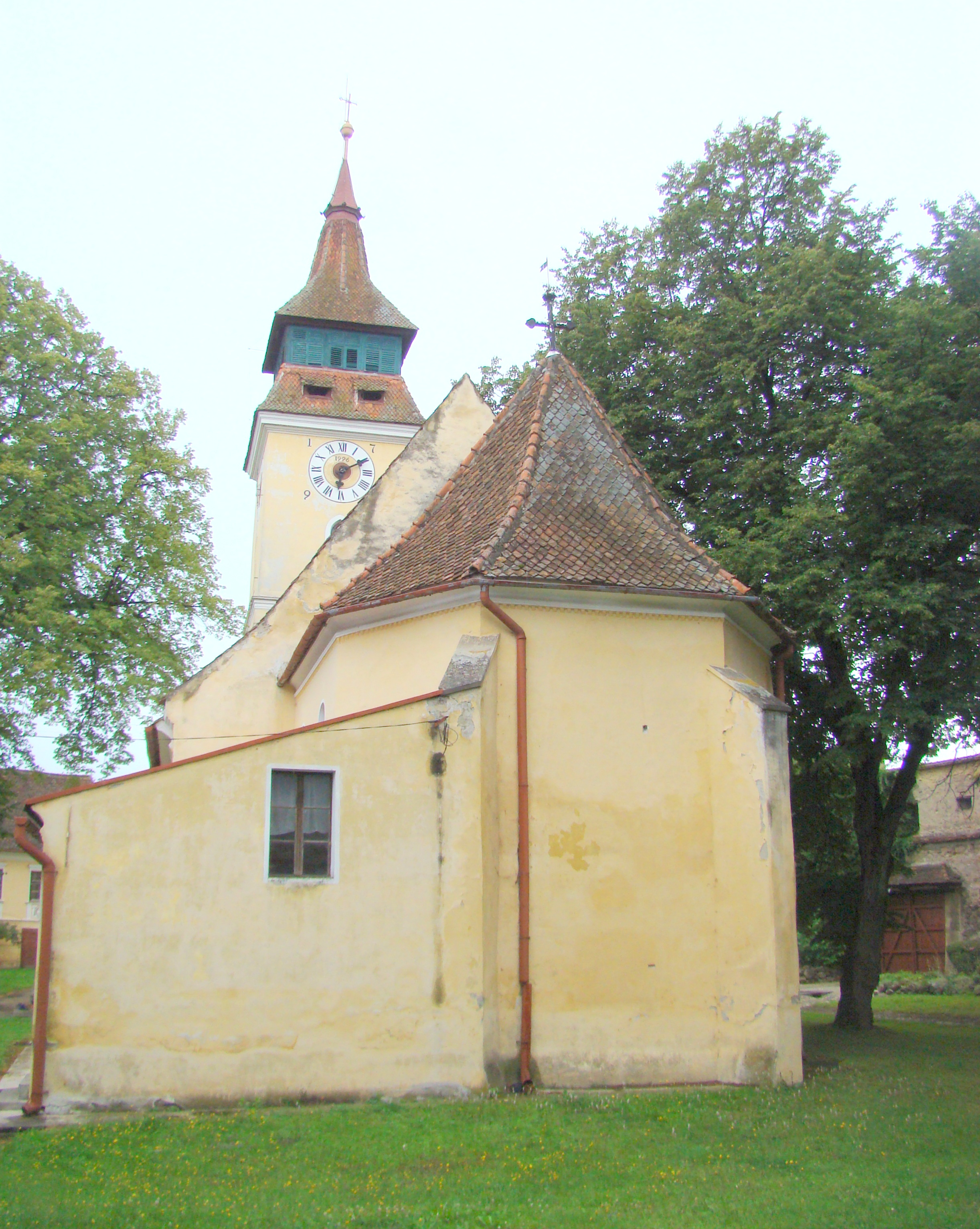 Fortified church in Vulcan, Brașov County, Romania